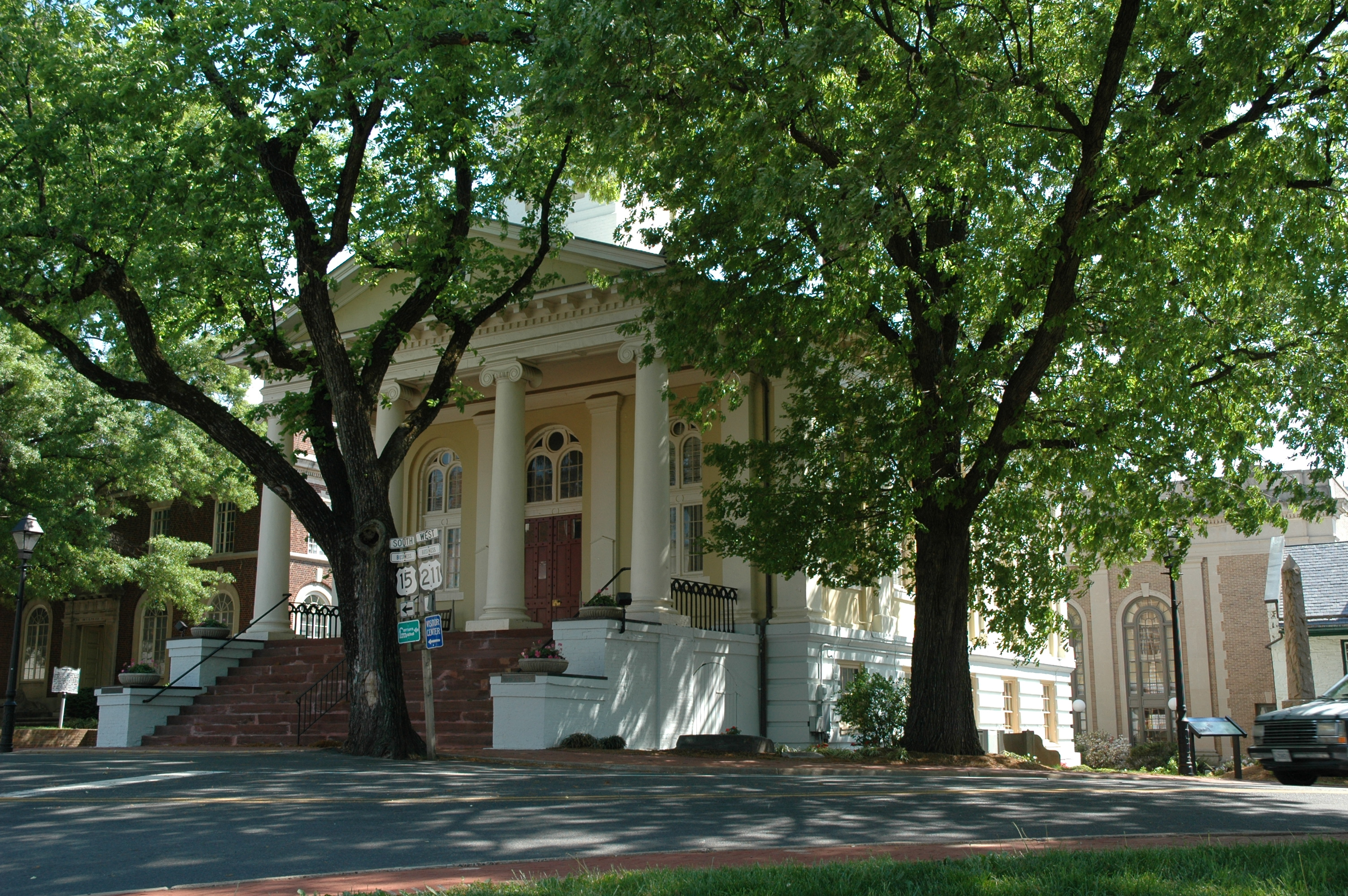 Fauquier County Courthouse — in Warrenton, Fauquier County, northern Virginia.